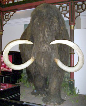 Mammoth (reconstruction) at Ipswich Museum, Ipswich, Suffolk, England. Photographer: S Hartwell (Messybeast). Sept 2006.